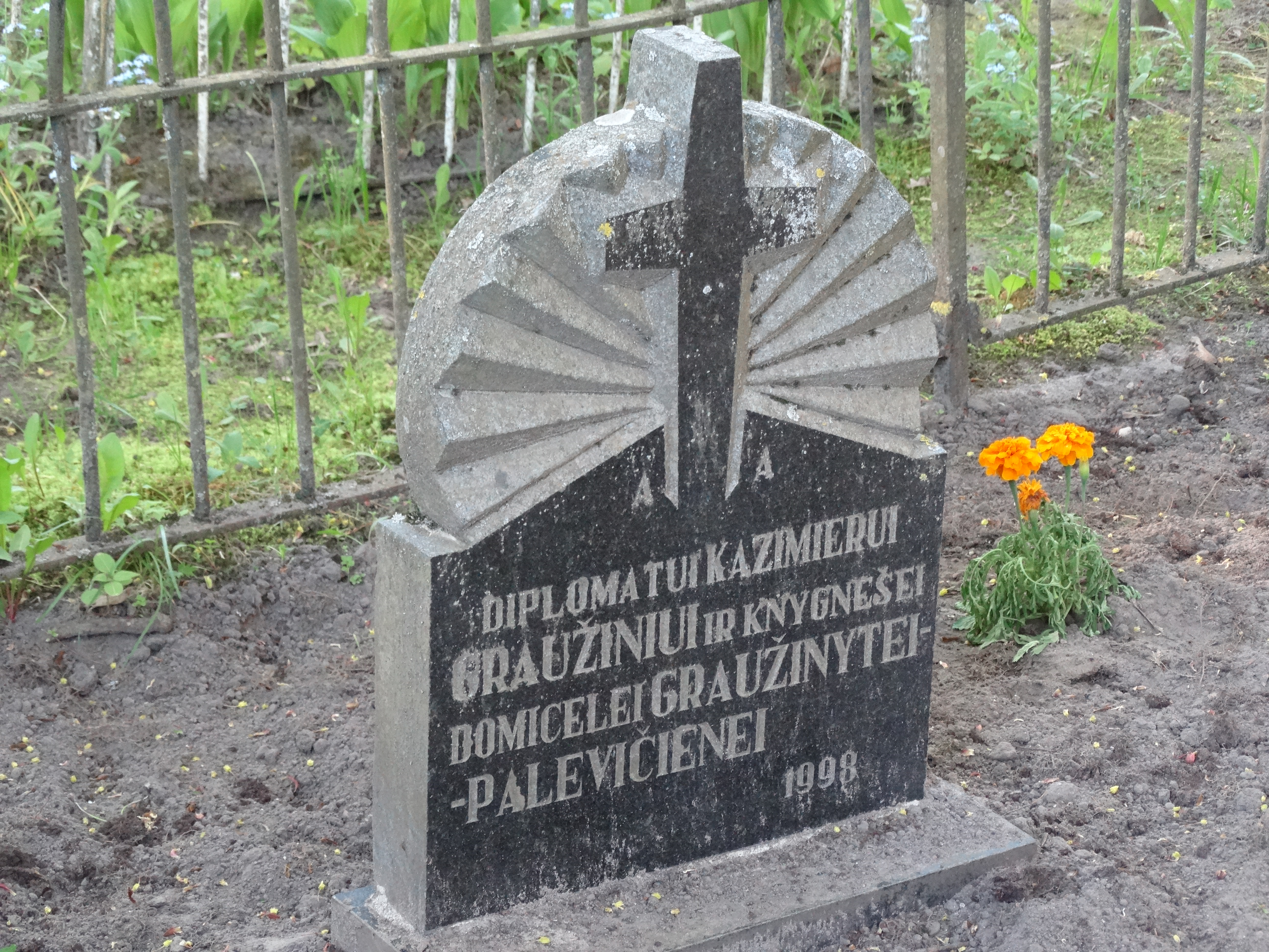 Graužiniai family chapel, tomb, Giedraičiai, Molėtai district, Lithuania